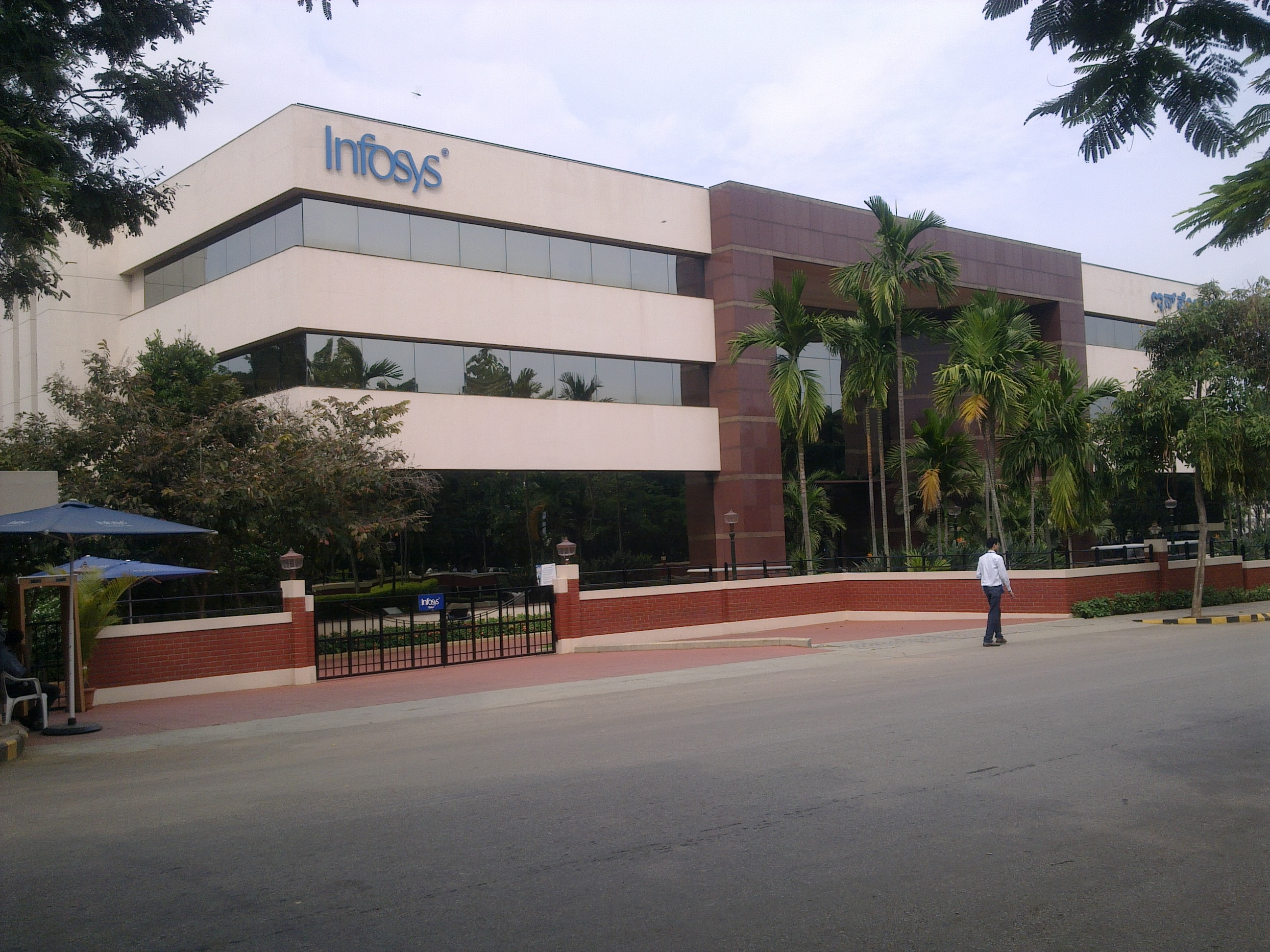 Infosys Limited Corporate Head Office